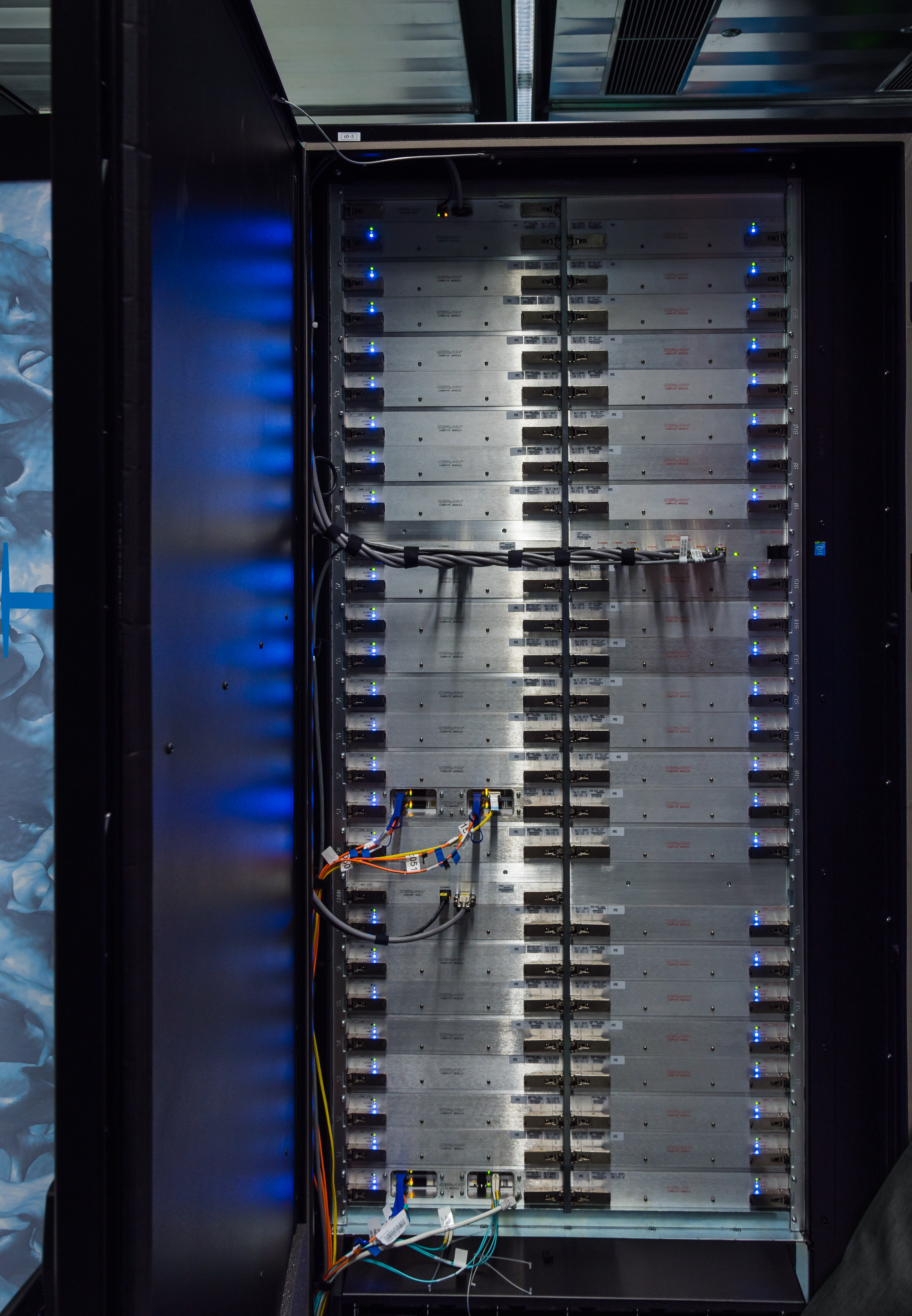 Cray XC40 (Hazel Hen) compute blades (front, 3 chassis with 16 blades each) with 4 nodes per blade, High Performance Computing Center Stuttgart (HLRS) of the University of Stuttgart.